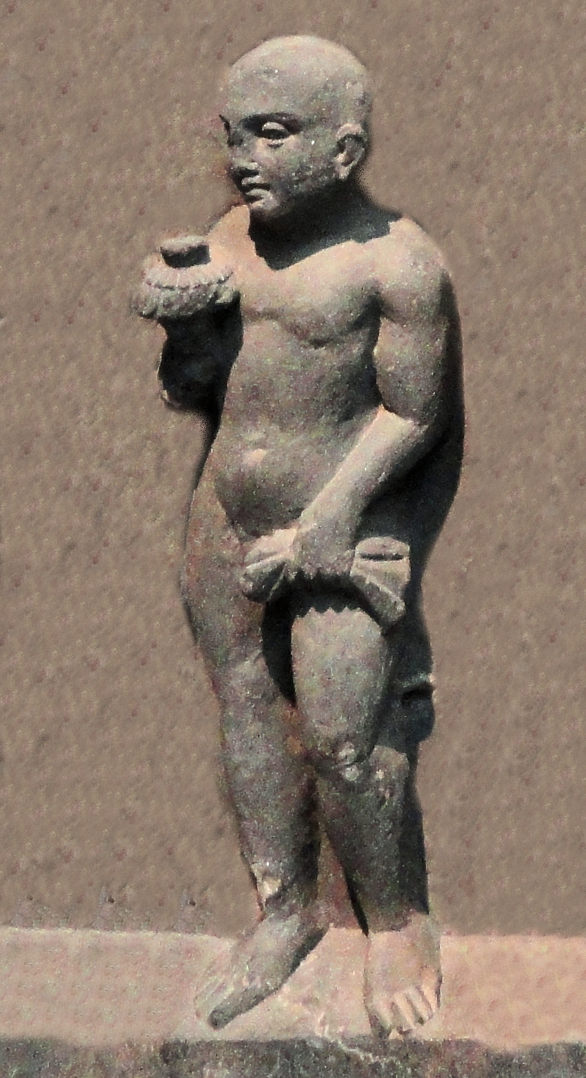 Ajivika Monk in a Gandhara sculpture of the MahaparinirvanaReferences:(in English) (2015) Early Asceticism in India: Ājīvikism and Jainism, Routledge, p. 278 ISBN: 9781317538530. (in English) (2015) Early Asceticism in India: Ājīvikism and Jainism, Routledge, p. 279 ISBN: 9781317538530. (in English) (2015) Early Asceticism in India: Ājīvikism and Jainism, Routledge, p. 281 ISBN: 9781317538530. British Museum catalogue British Museum catalogue